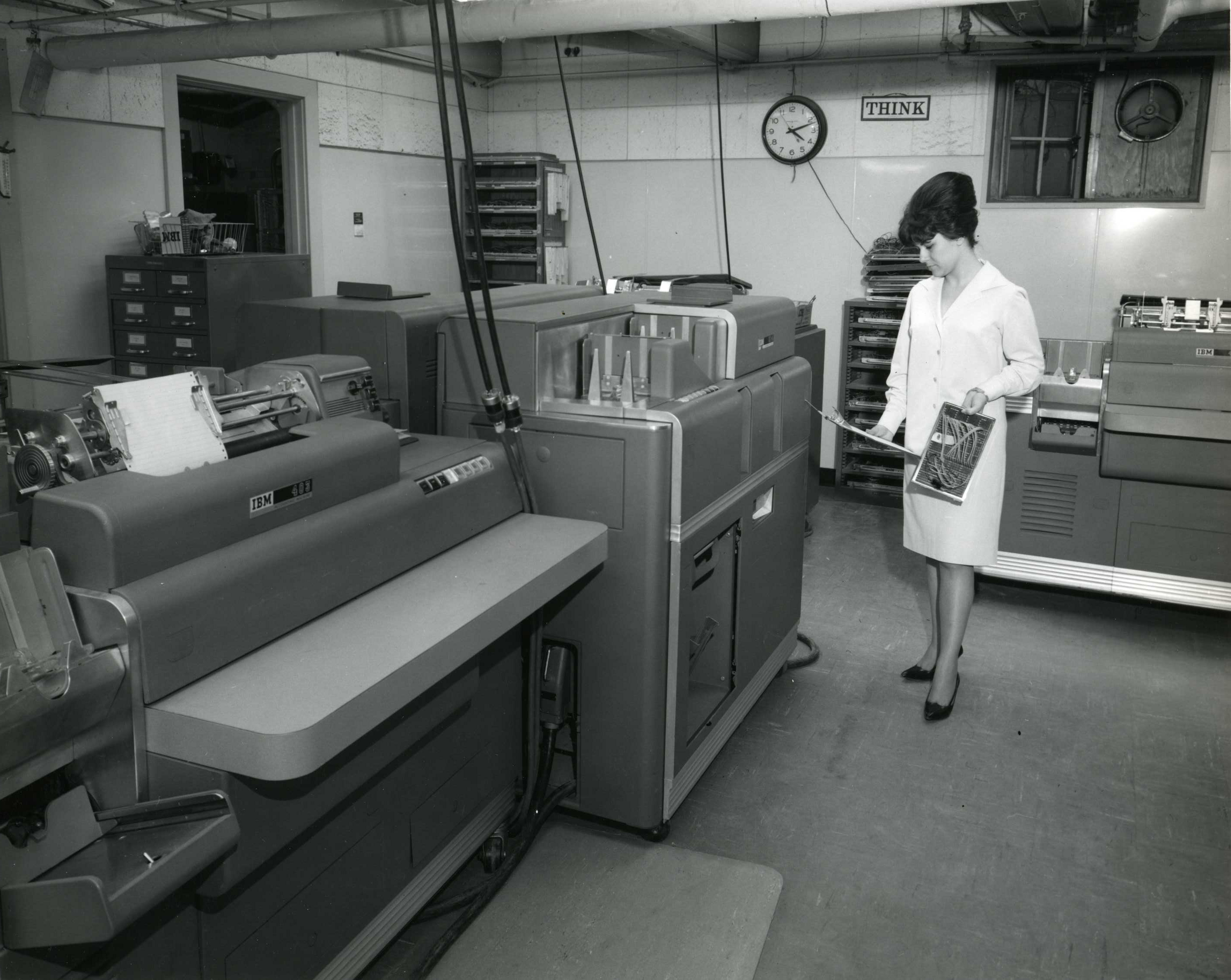 From flickr: "The machine in the foreground is an IBM 403 accounting machine where the input are punched cards." The machine in the center is an IBM 514 Reproducing Punch (ref: compare with File:IBM punch card duplicator Trondheim.jpg) apparently connected to the foreground 403 as a summary punch, and the one in the background is another 403 or 402 accounting machine. The woman is holding a plugboard control panel for the IBM 514. A storage rack filled with plugboards is behind her. Note her beehive hairstyle, popular in the 1960s.